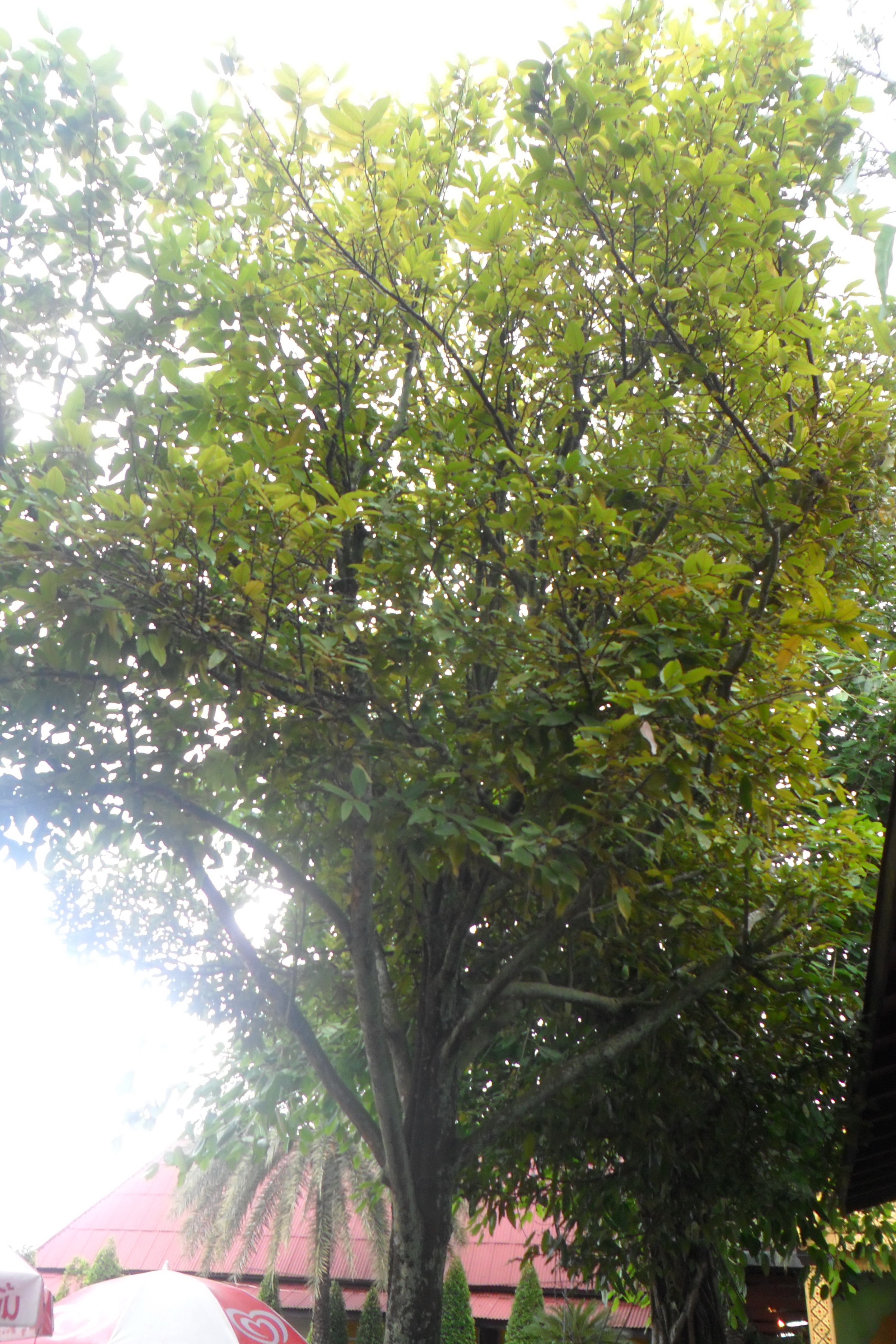 Mitrephora winitii. Nong Nooch Botanical Garden. Thailand.